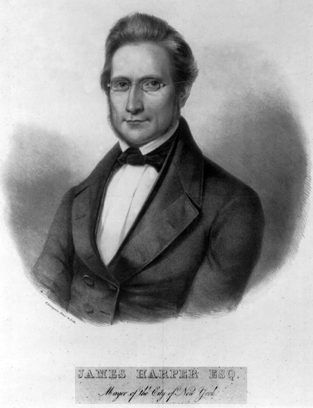 Portrait of publisher and New York mayor James Harper